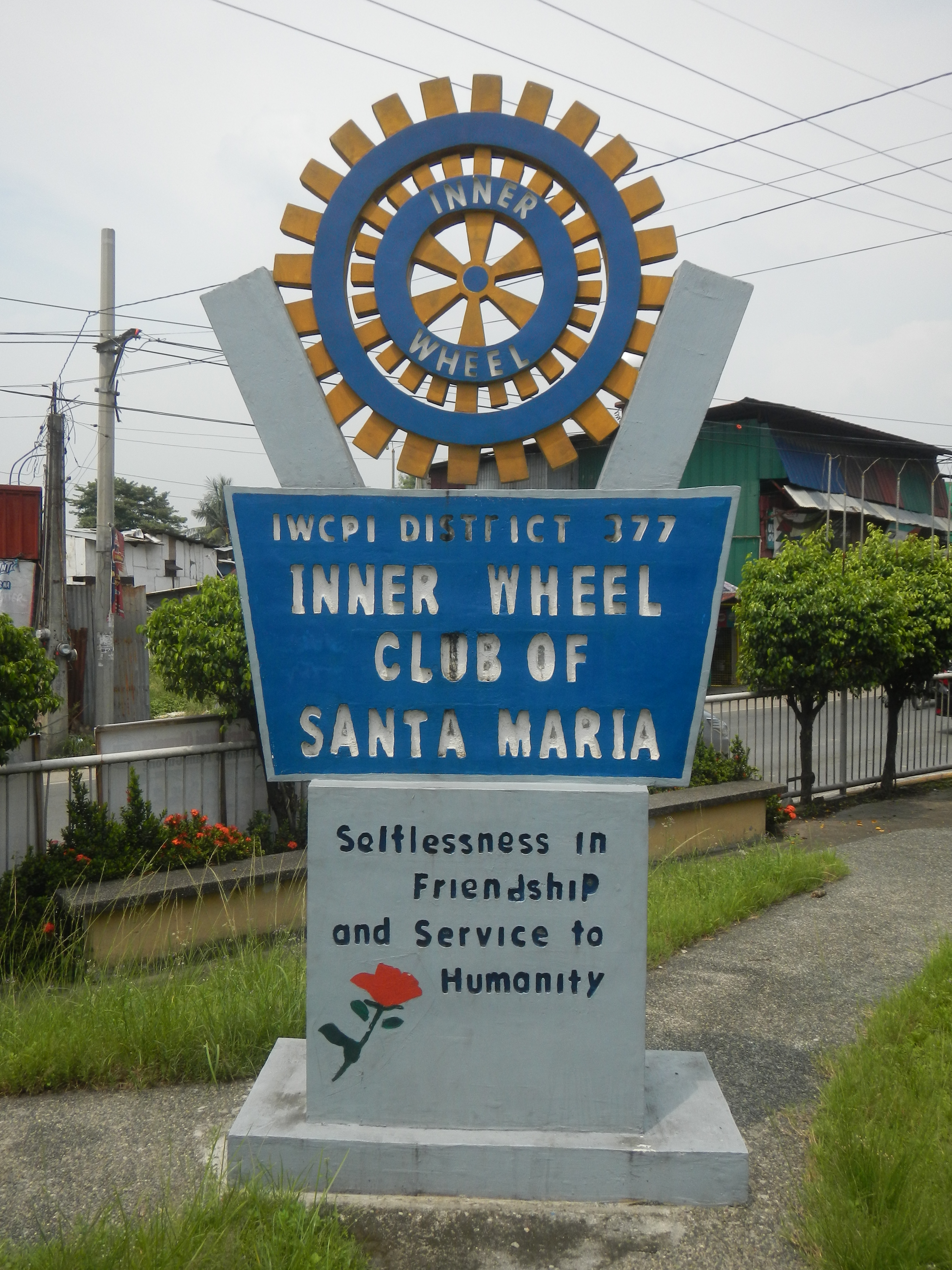 Sitio Dulongbayan, Poblacion, Santa Maria, Bulacan Platinum Petroleum Corporation (Global Oil Hauz Gasoline Station) Santa Maria-Norzagaray, Bulacan Road Guyong (Santa Maria-Norzagaray, Bulacan Road) Santa Maria-Norzagaray, Bulacan Provincial Road 14°52'3"N 120°59'57"E Caypombo 14°51'34"N 120°58'46"E Guyong 14°50'4"N 120°58'31"E Pulong Buhangin 14°52'37"N 121°0'17"E Pulong Buhangin, Bulacan Caypombo, Bulacan Guyong, Bulacan (Note: Judge Florentino Floro, the owner, to repeat, Donor Florentino Floro of all these photos hereby donate gratuitously, freely and unconditionally all these photos to and for Wikimedia Commons, exclusively, for public use of the public domain, and again without any condition whatsoever).